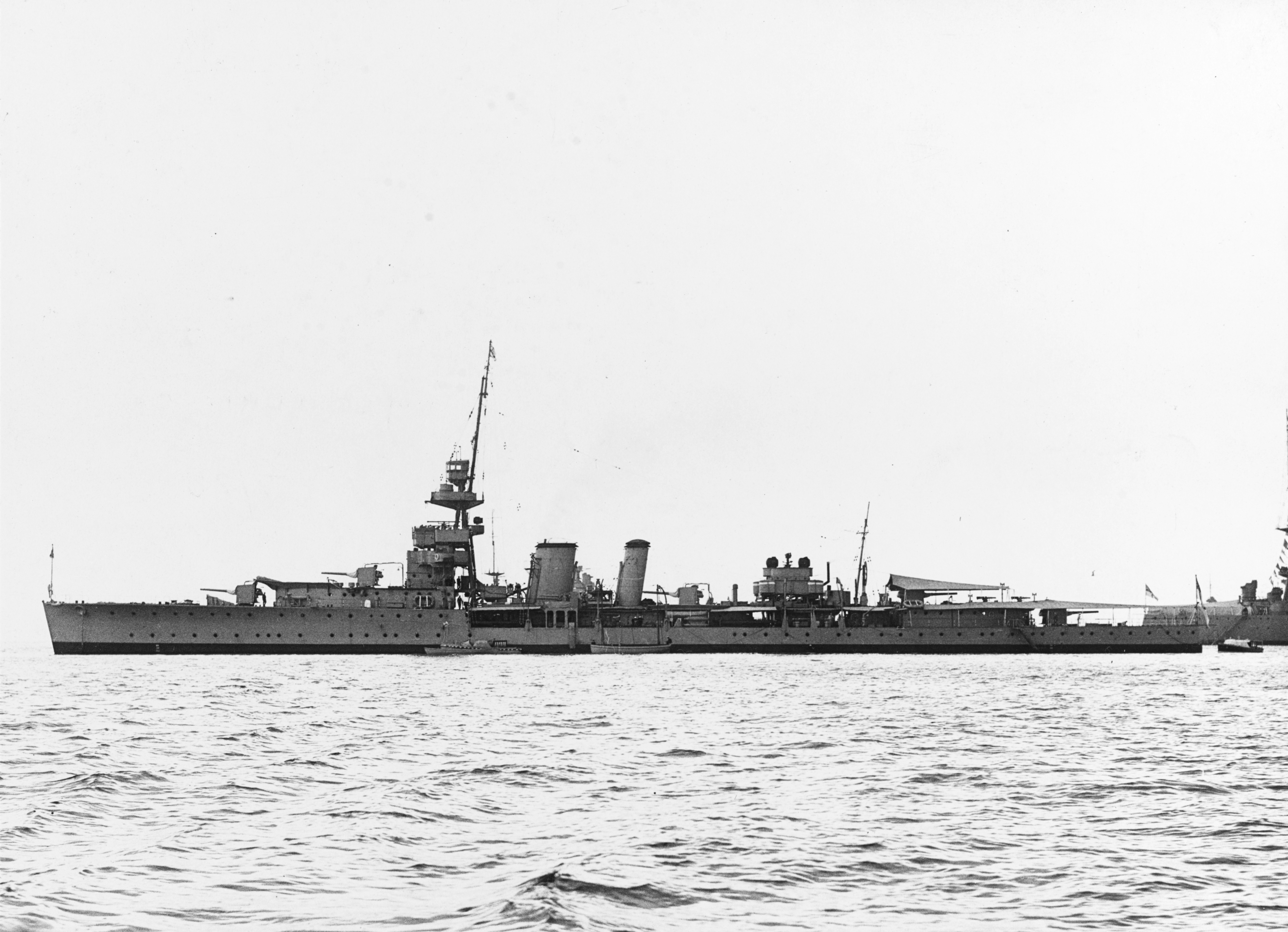 The Royal Navy light cruiser HMS Curacoa (D41) at anchor, before her conversion to an anti-aircraft cruiser in 1939-1940.